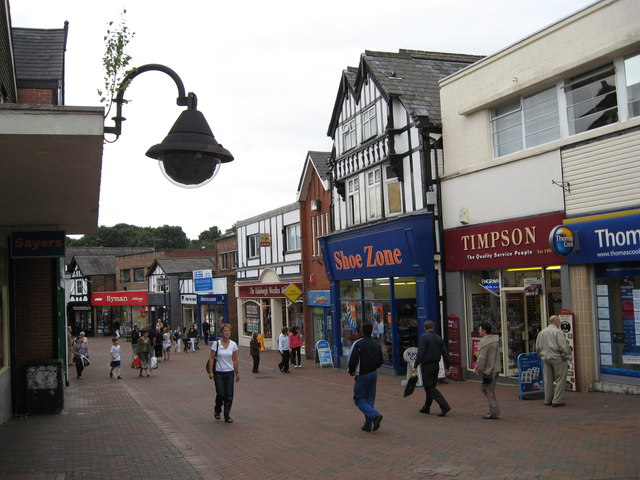 Northwich - the main shopping area looking west